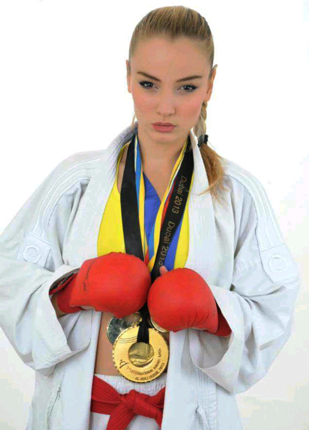 Fortesa Orana, Karateka from Kosovo